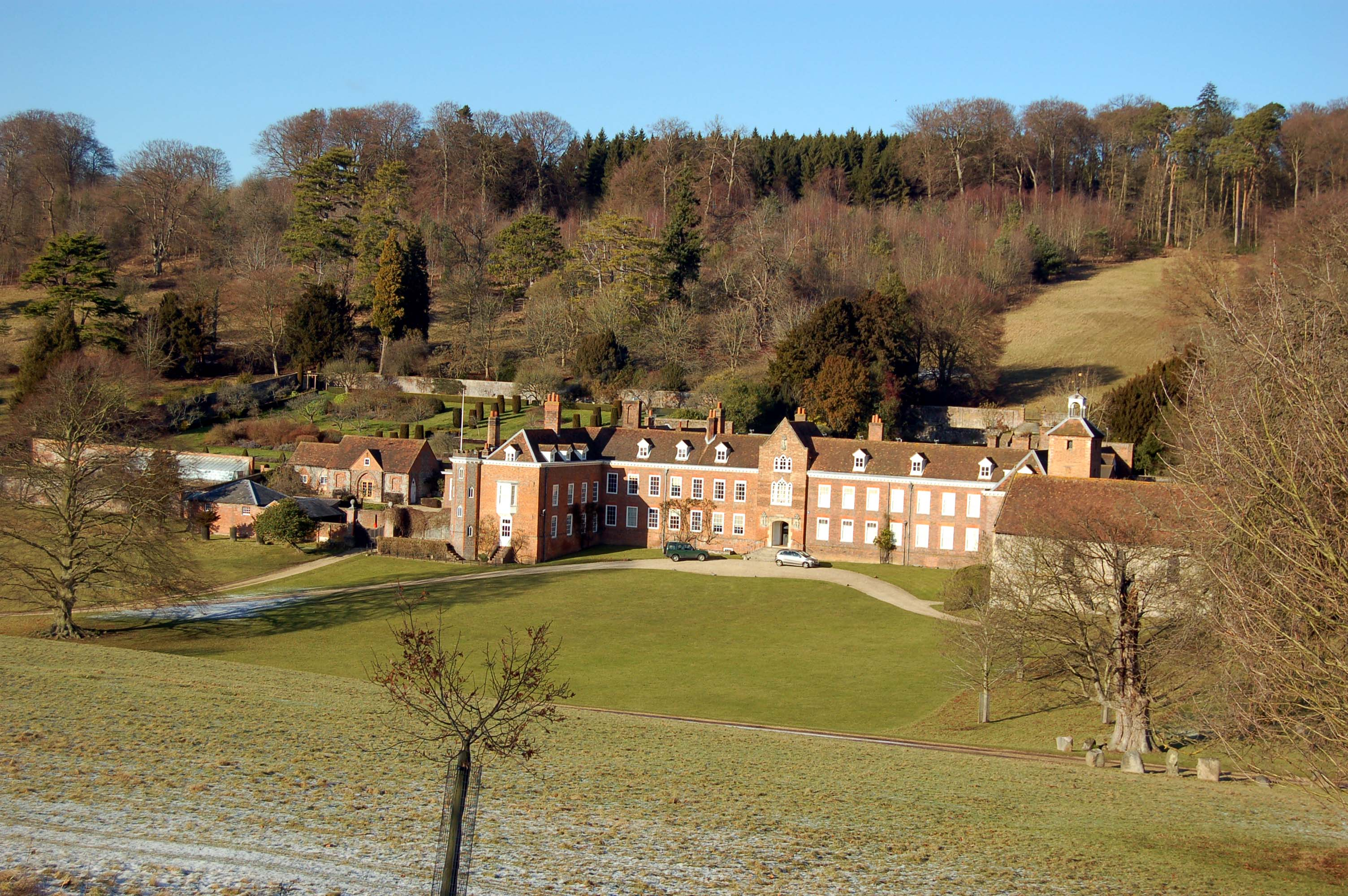 Stonor House, Oxfordshire